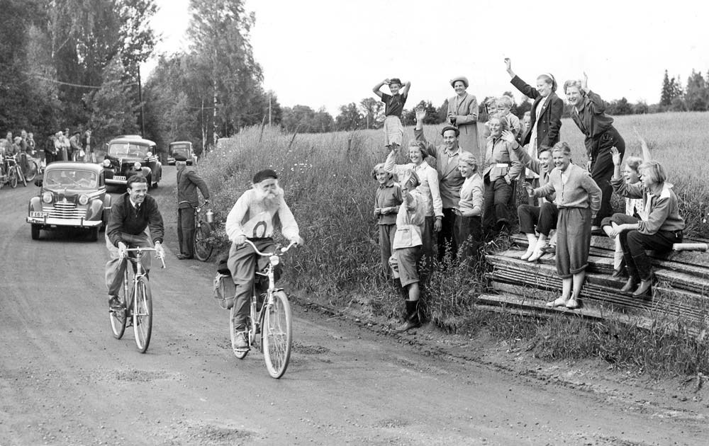 Gustaf ”Stålfarfar” Håkansson during Sverigeloppet 1951. To the left of him the Swedish cyclist Sven "Svängis" Johansson can be seen.